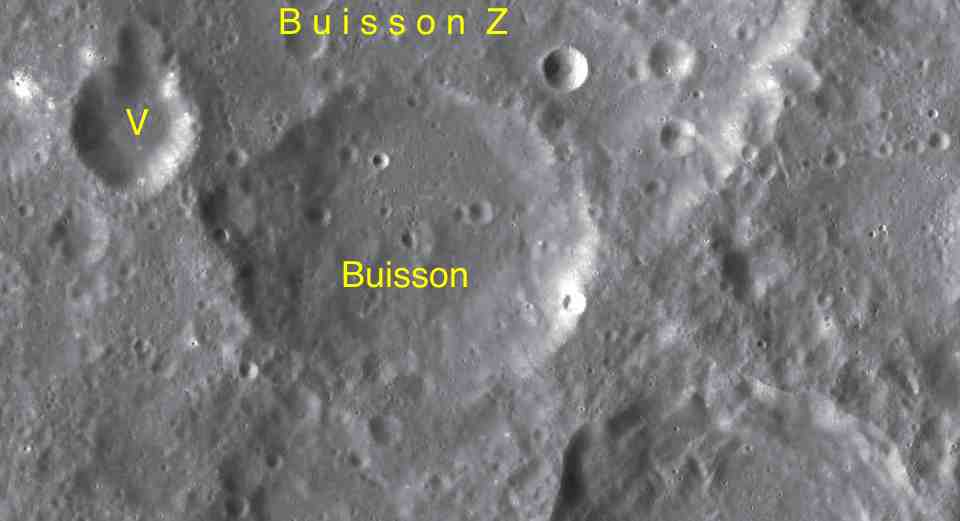 Part of the chart LAC-83 used for the presentation